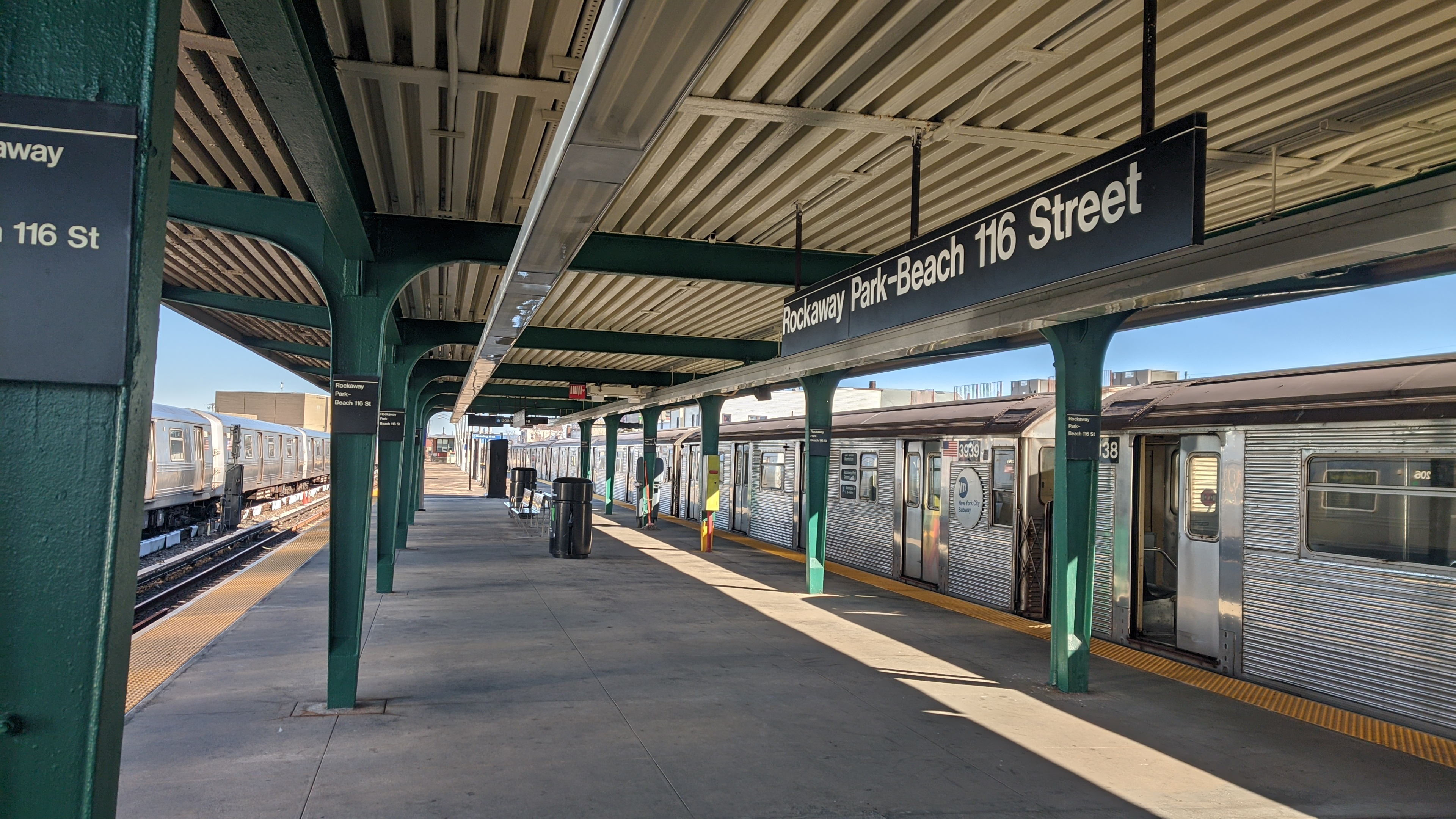 Platform at Rockaway Park - Beach 116th Street, with an R32 in the background.